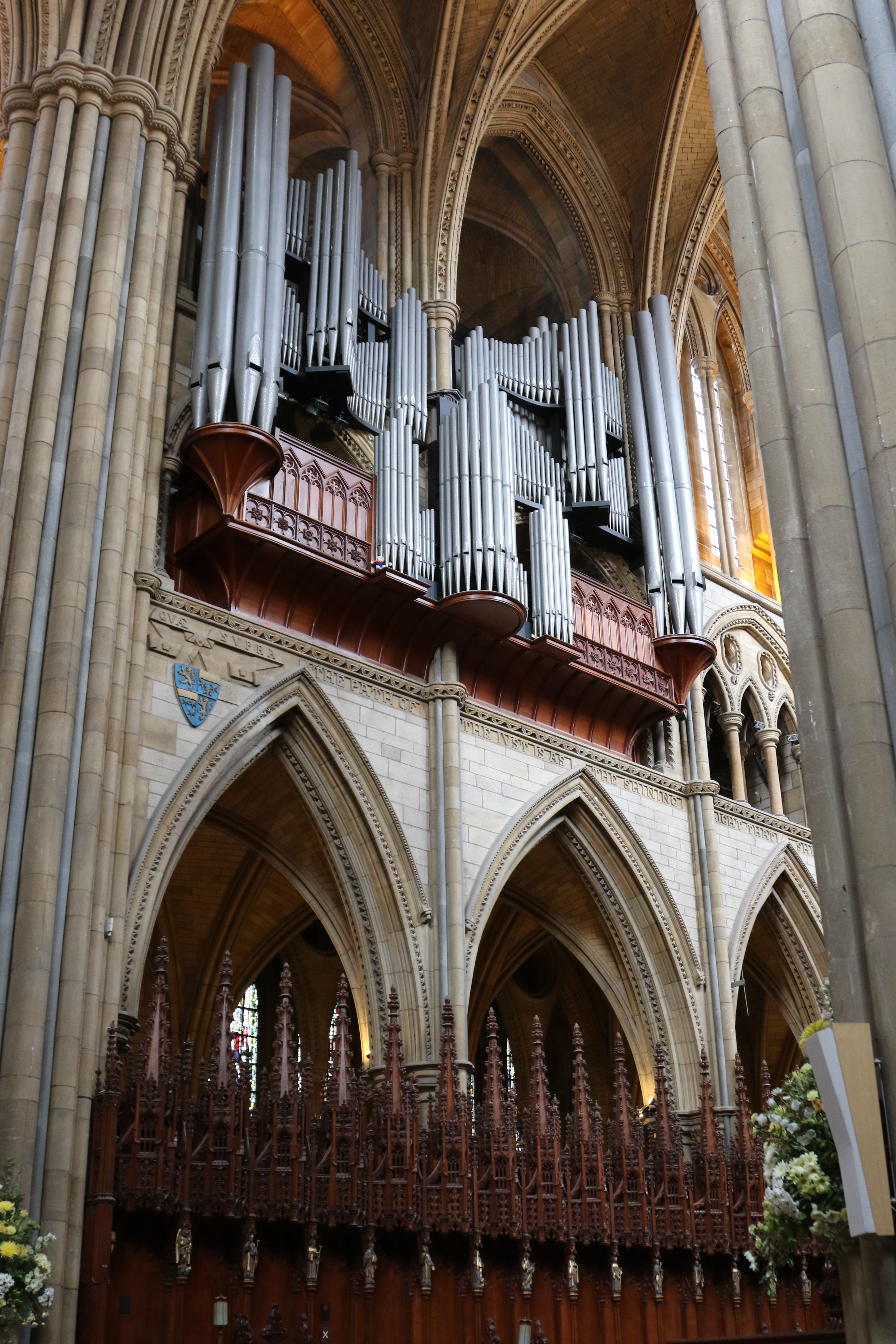 The organ in the north triforium